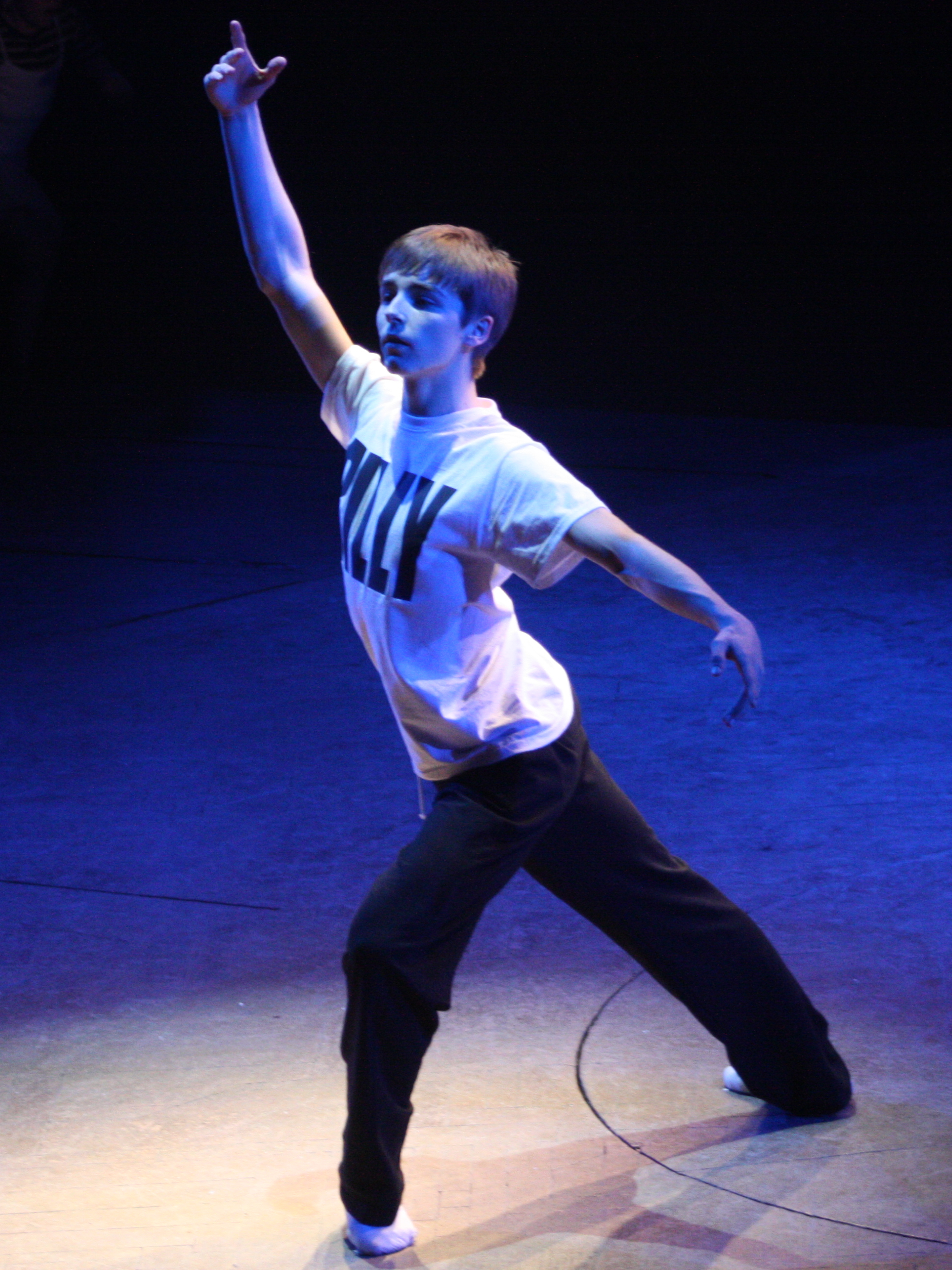 Musical theatre actor and dancer Liam Mower performing onstage in the 5th Birthday celebration of Billy Elliot the Musical at the Victoria Palace Theatre, London.